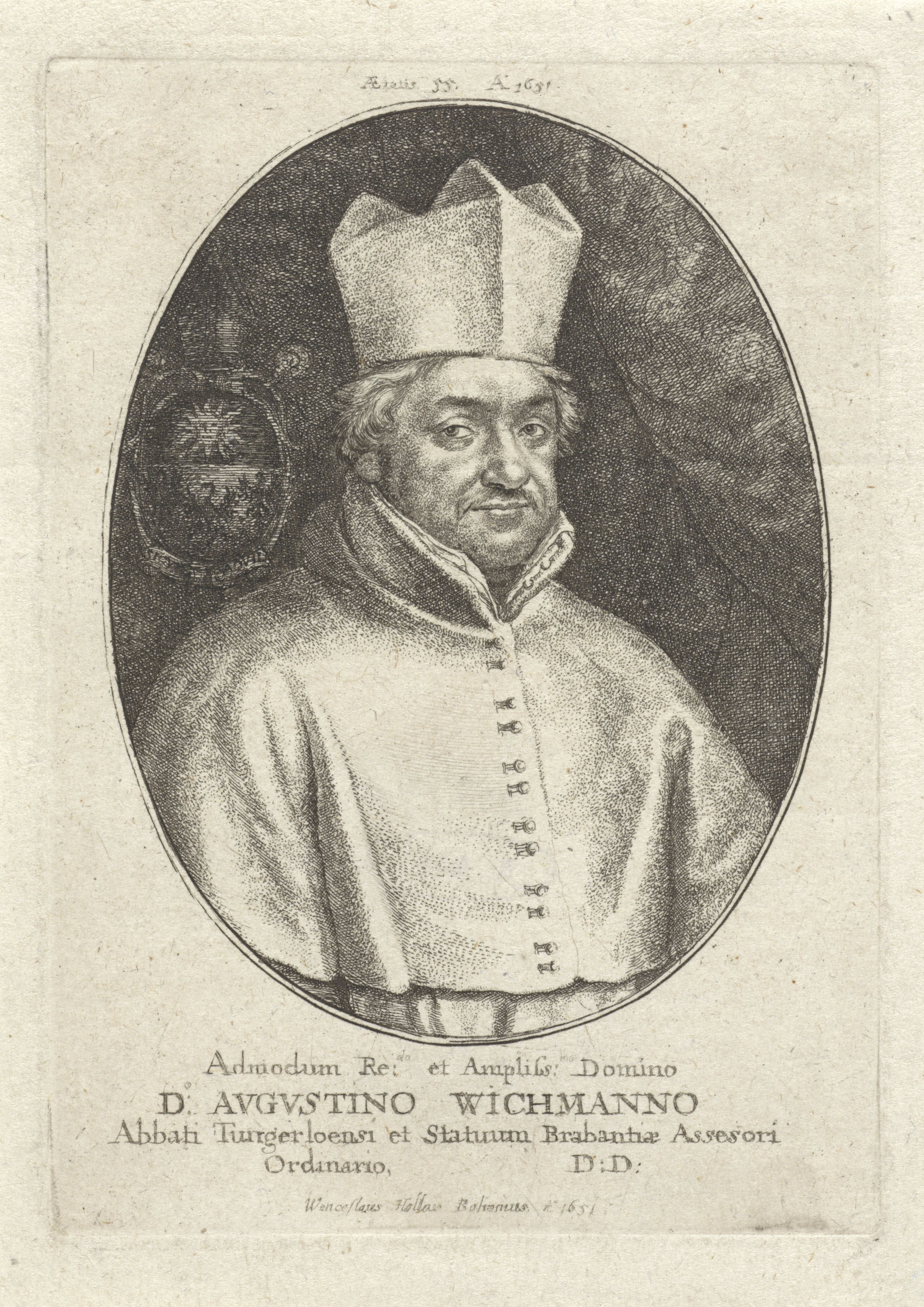 Augustinus Wichmans, abbot of Tnogerlo Abbey, by Wenceslaus Hollar, 1651